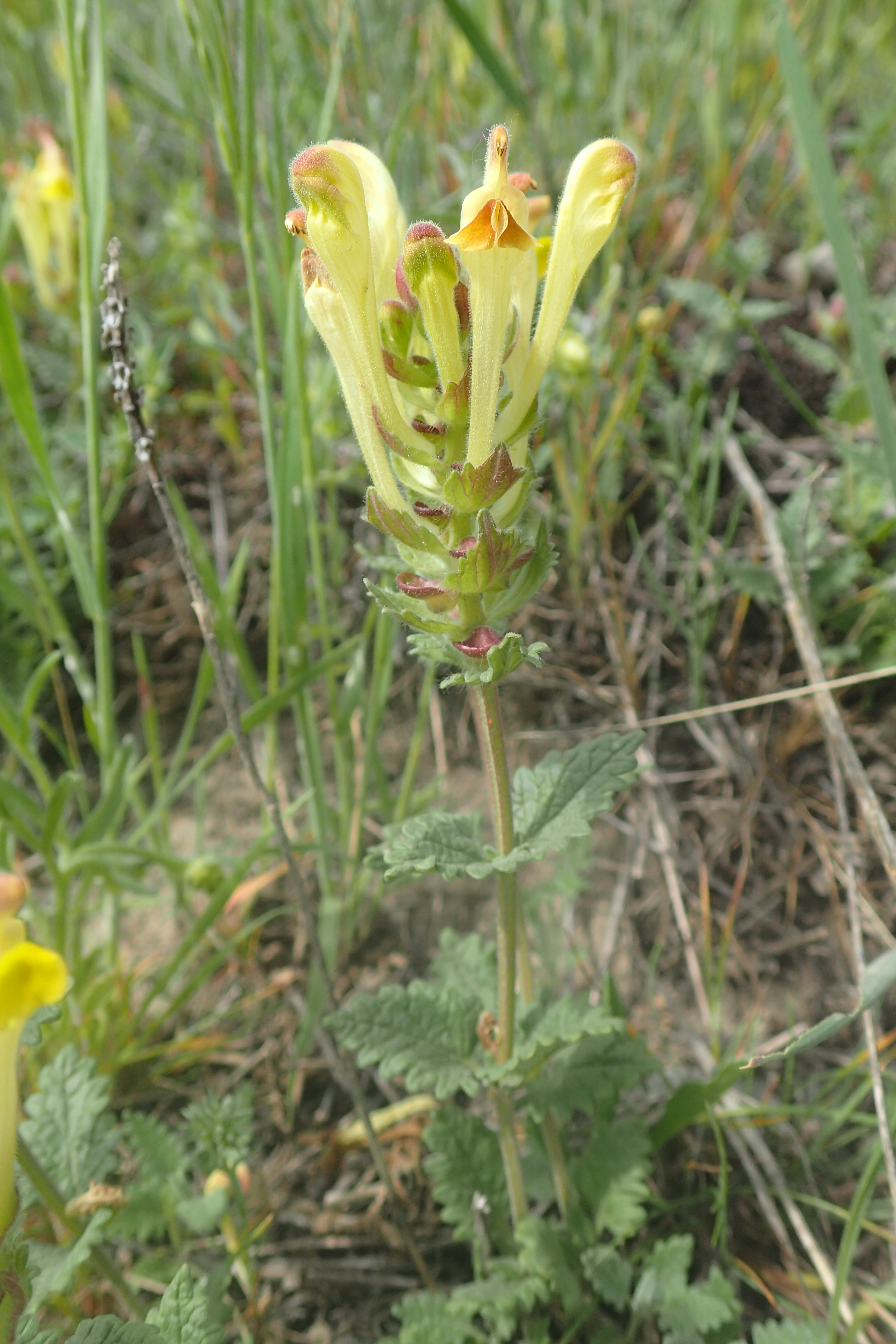 Scutellaria orientalis in Voghjaberd (Armenia)